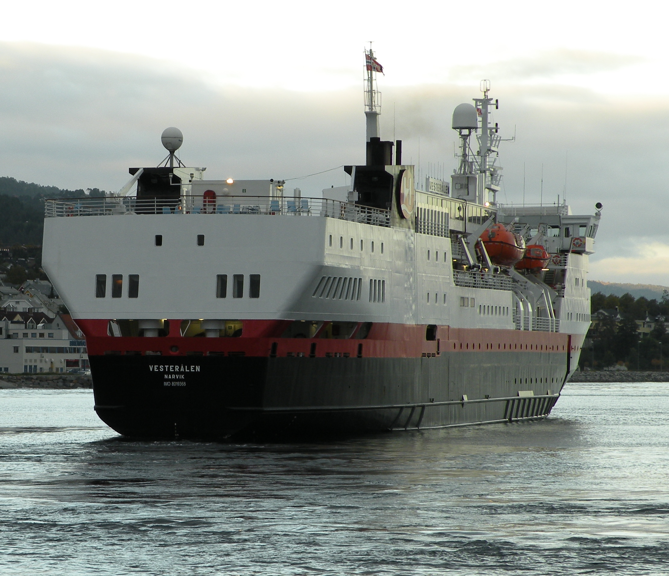 Norwegian coastal express ship (Hurtigruten) MS Vesterålen leaves Molde